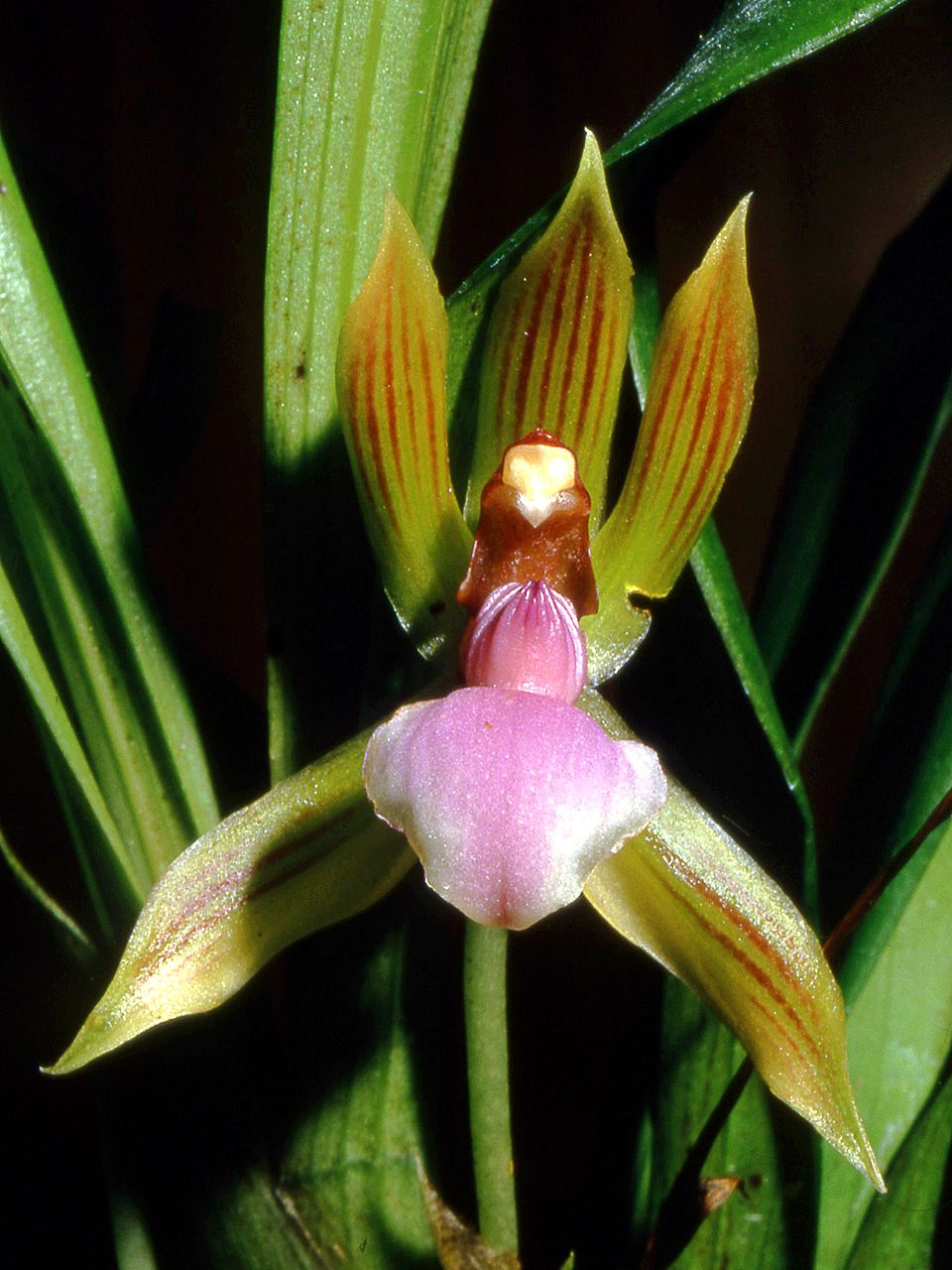 Chaubardia heteroclita - flower